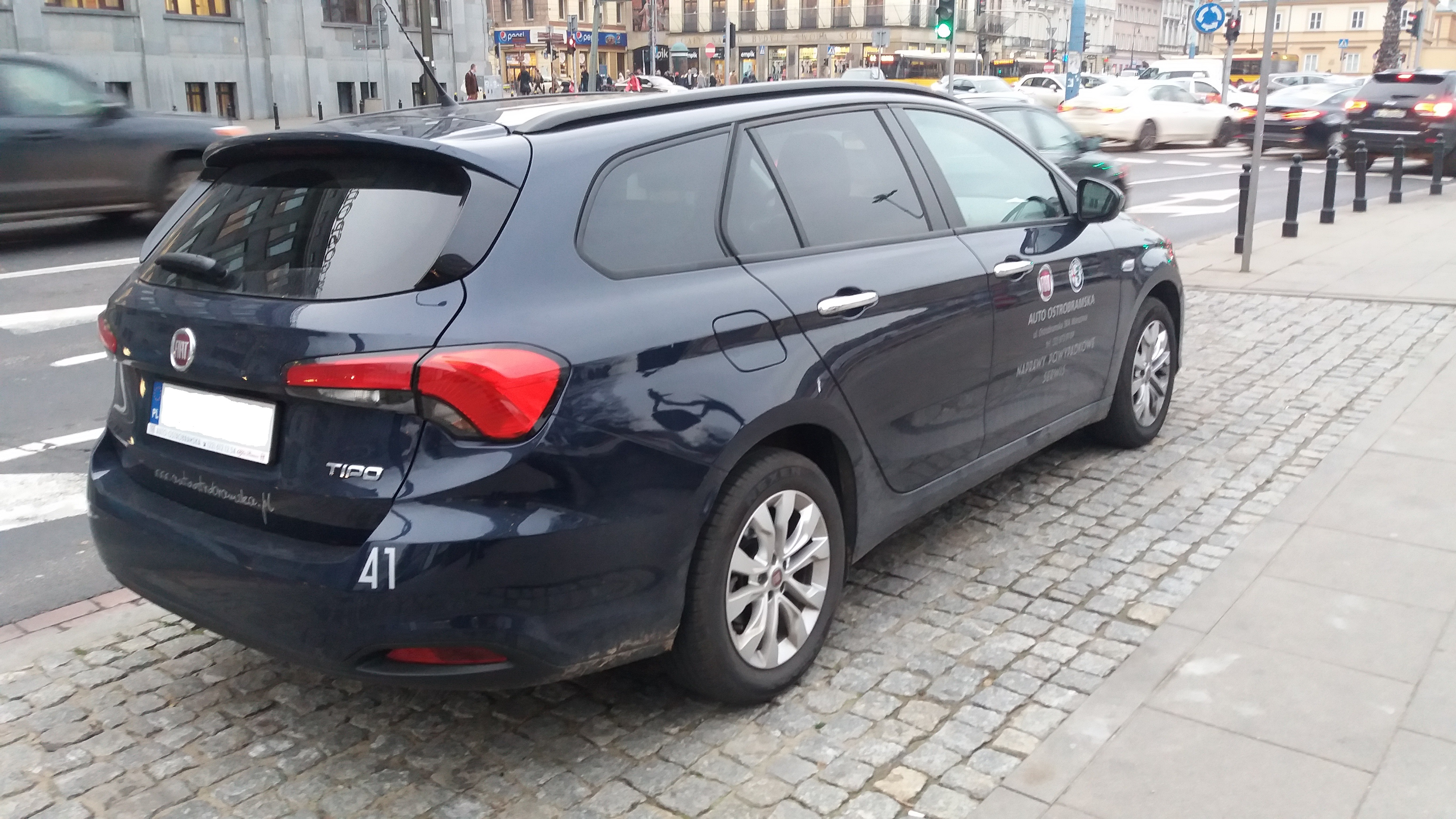 Fiat Tipo in Warsaw